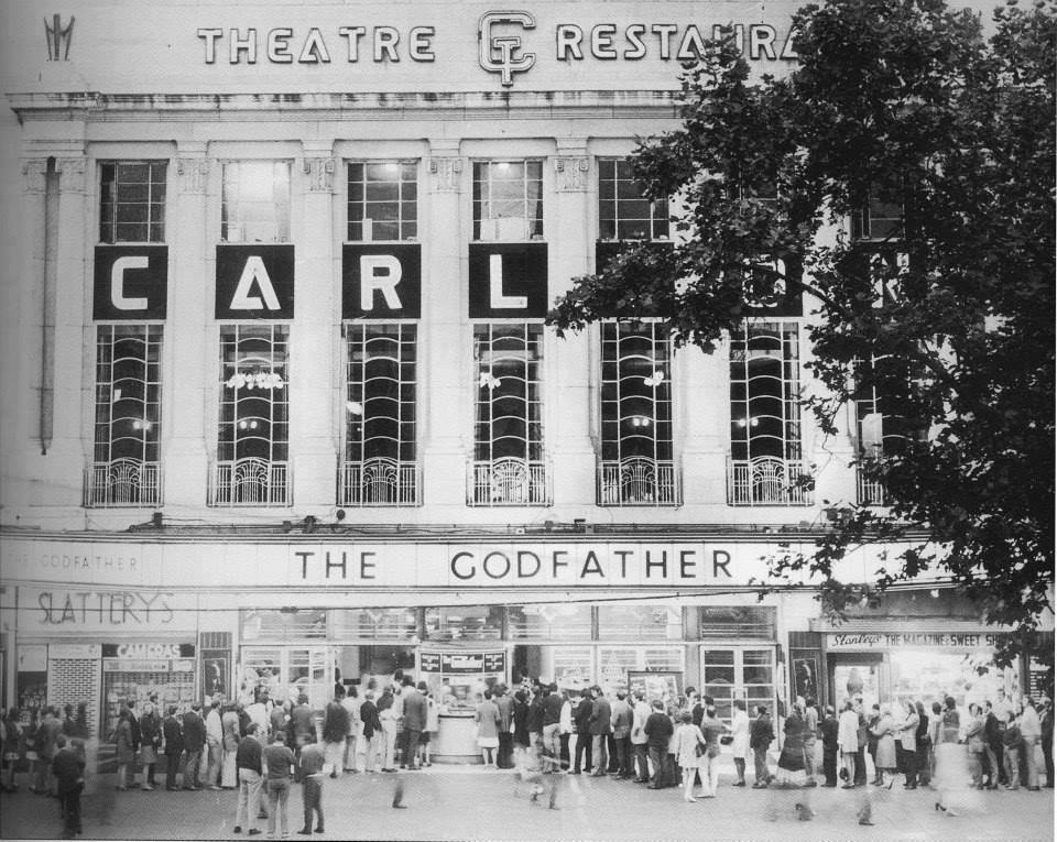 A picture of the Carlton Cinema in Dublin, c. 1972.